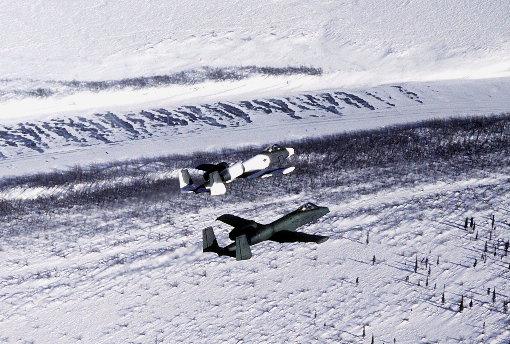 Two U.S. Air Force Faichild A-10A Thunderbolt II aircraft from the 18th Tacical Fighter Squadron, 343rd Tactical Fighter Wing, one with a special winter camouflage paint scheme, in flight near Kotzebue, Alaska (USA), on 8 March 1982. The A-10s participated in exercise "Cool Snow Hog '82-1".